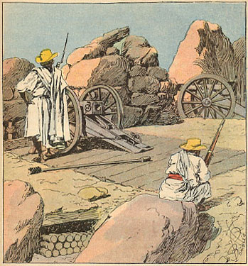 Merina_artillery_in_ambush_Henri_Gallichet_1850_1923_Louis_Charles_Bombled__1862-1927_La_Guerre_a_Madagascar_1896.jpg